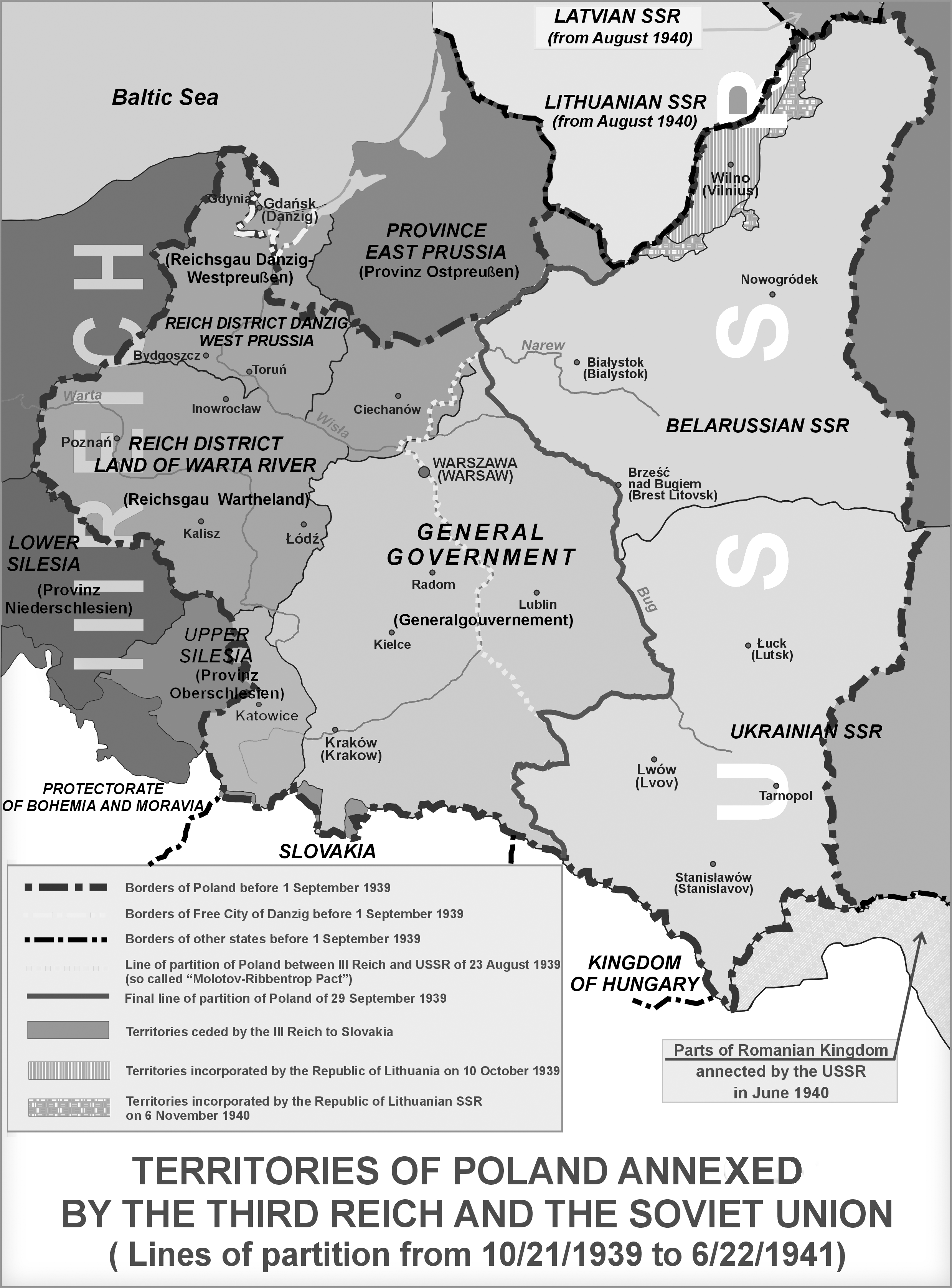 Poland occupied by Nazi Germany (the Third Reich) and the USSR (21/10/1939-22/06/1941). Map version in black and white.